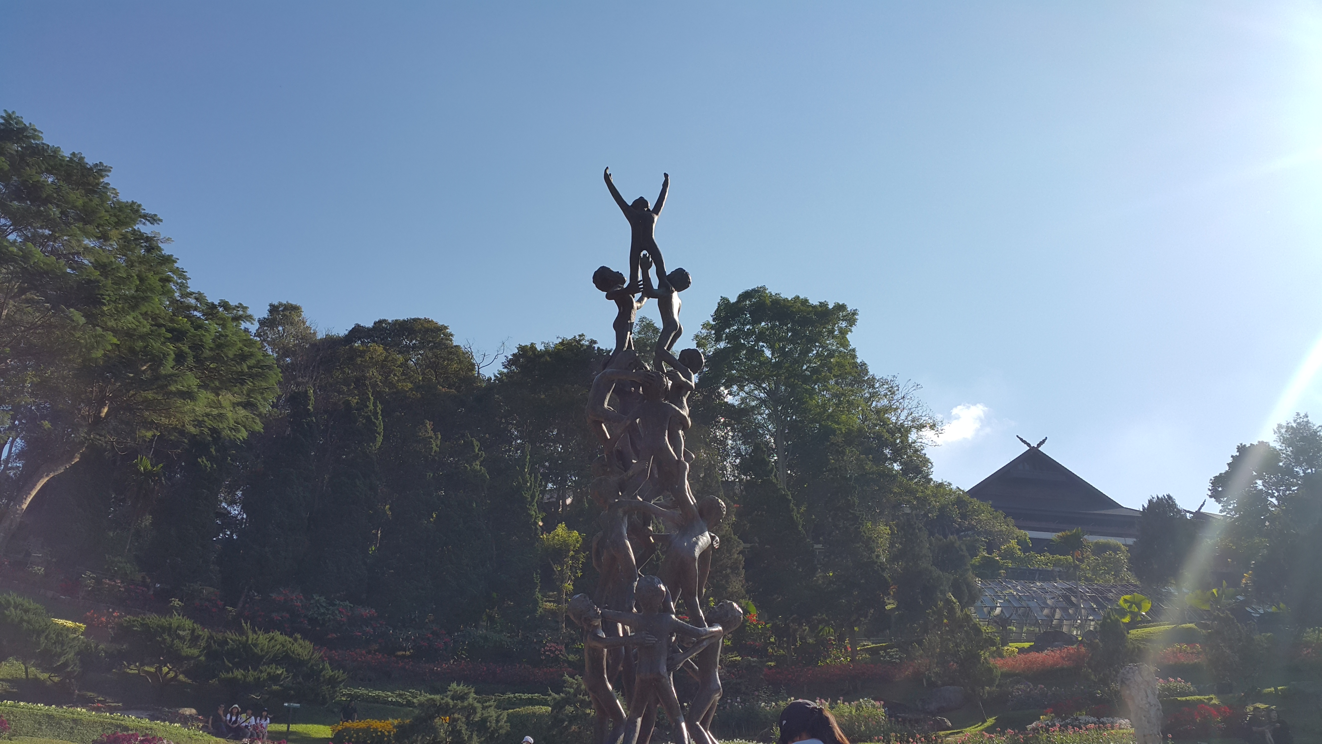 A sculpture in Chiang Rai Doi Tung Royal Villa, Thailand